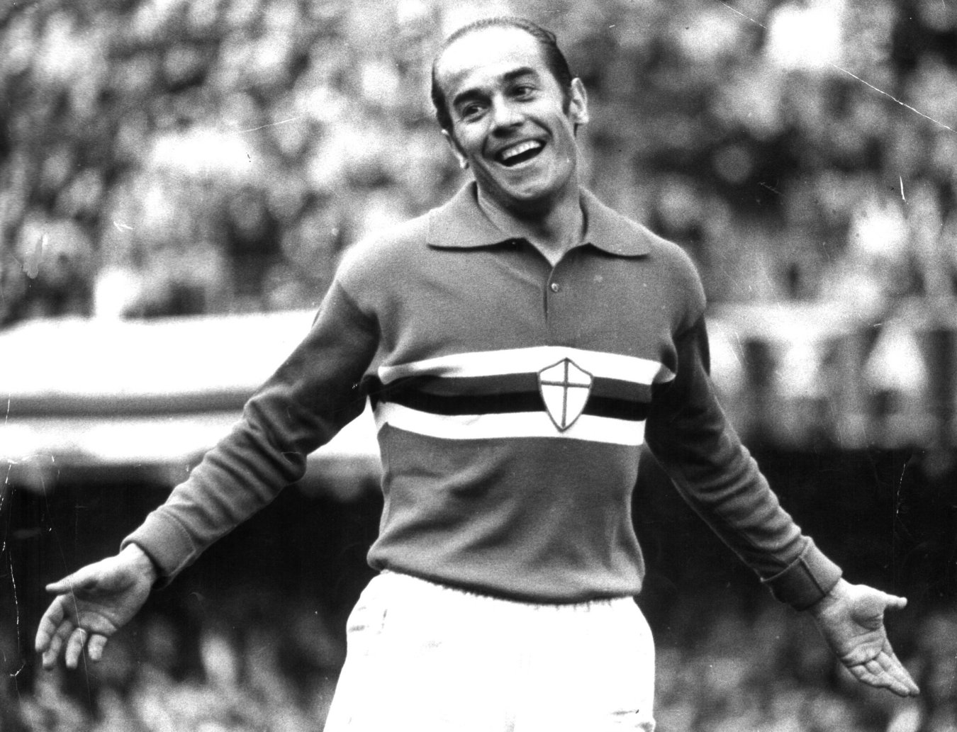 Spanish footballer Luis Suárez Miramontes with U.C. Sampdoria in the early 1970s.